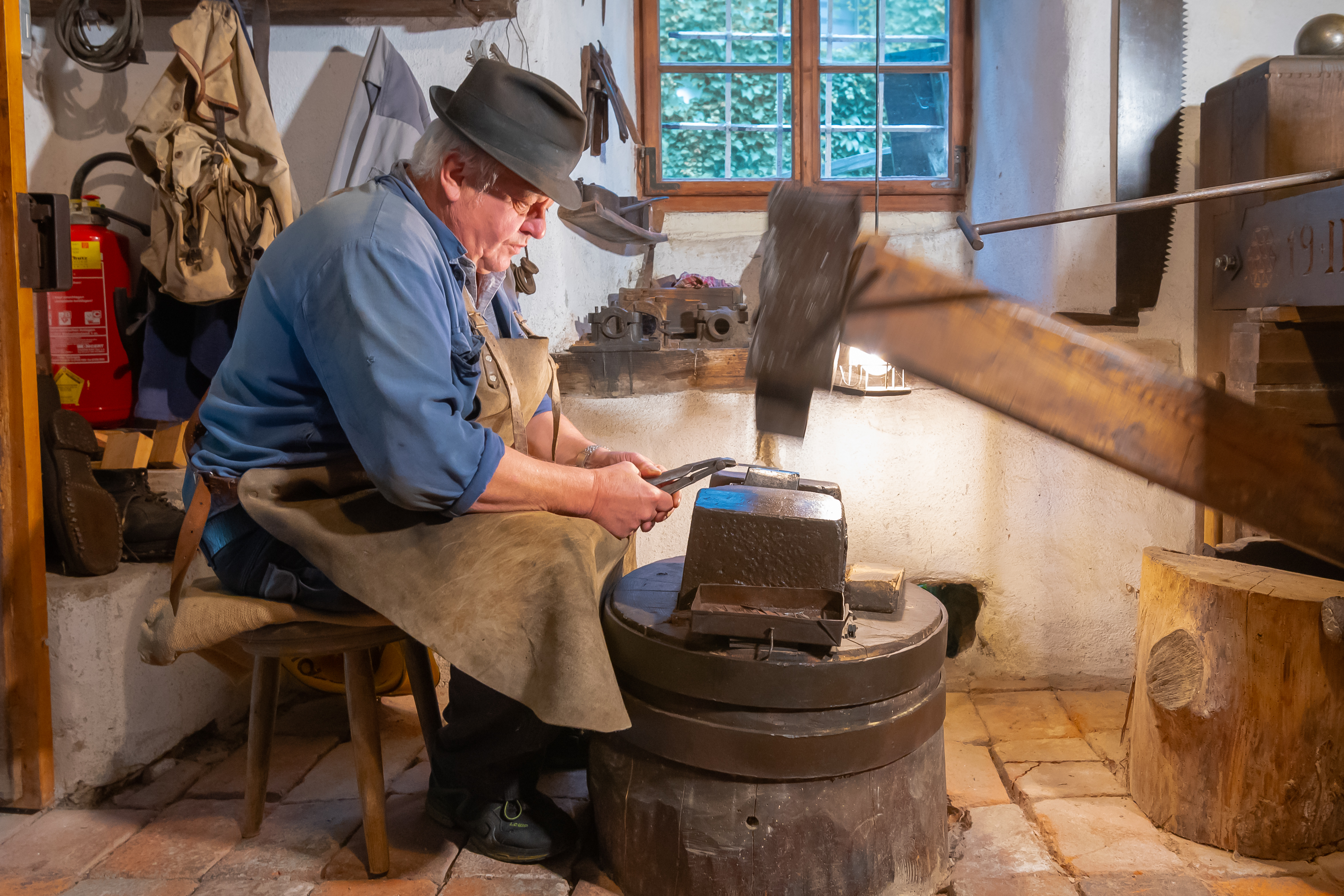 Cold forging of a blade for a folding knife called "Trattenbacher Feitl" by forger Josef Riegltaler on a trip hammer in the hammer and grinding shop "zum König" in Trattenbach, Upper Austria.